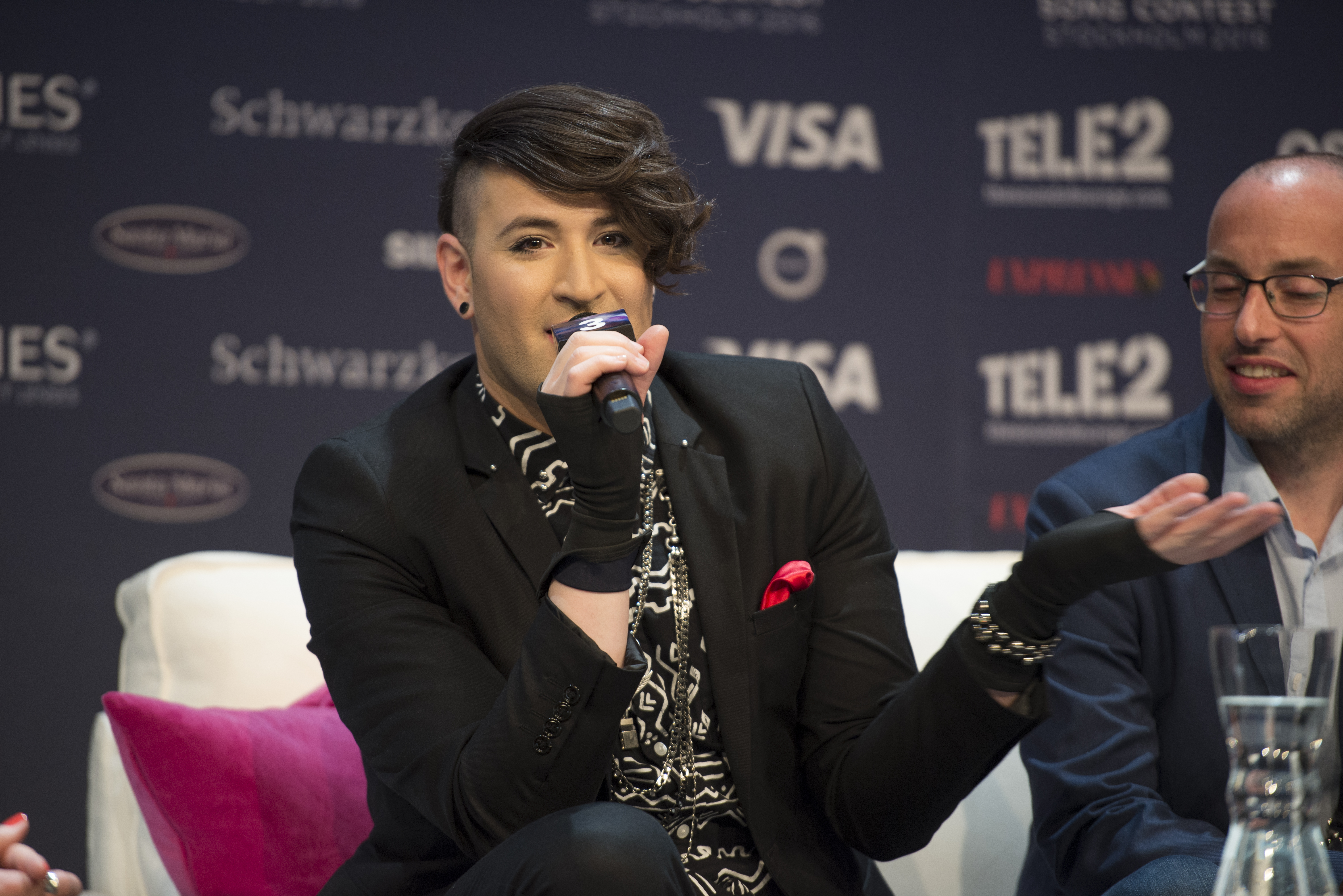 Hovi Star at a Meet & Greet during the Eurovision Song Contest 2016 in Stockholm. (Help translate this text)